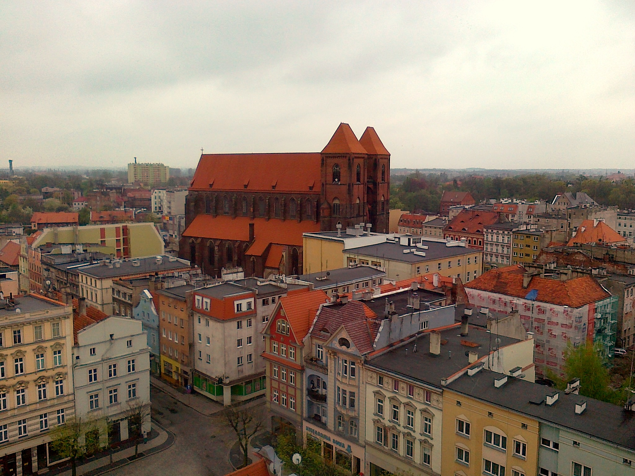 View from the Town hall's tower in Brzeg, Poland